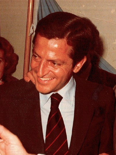 Adolfo Suárez in 1981.